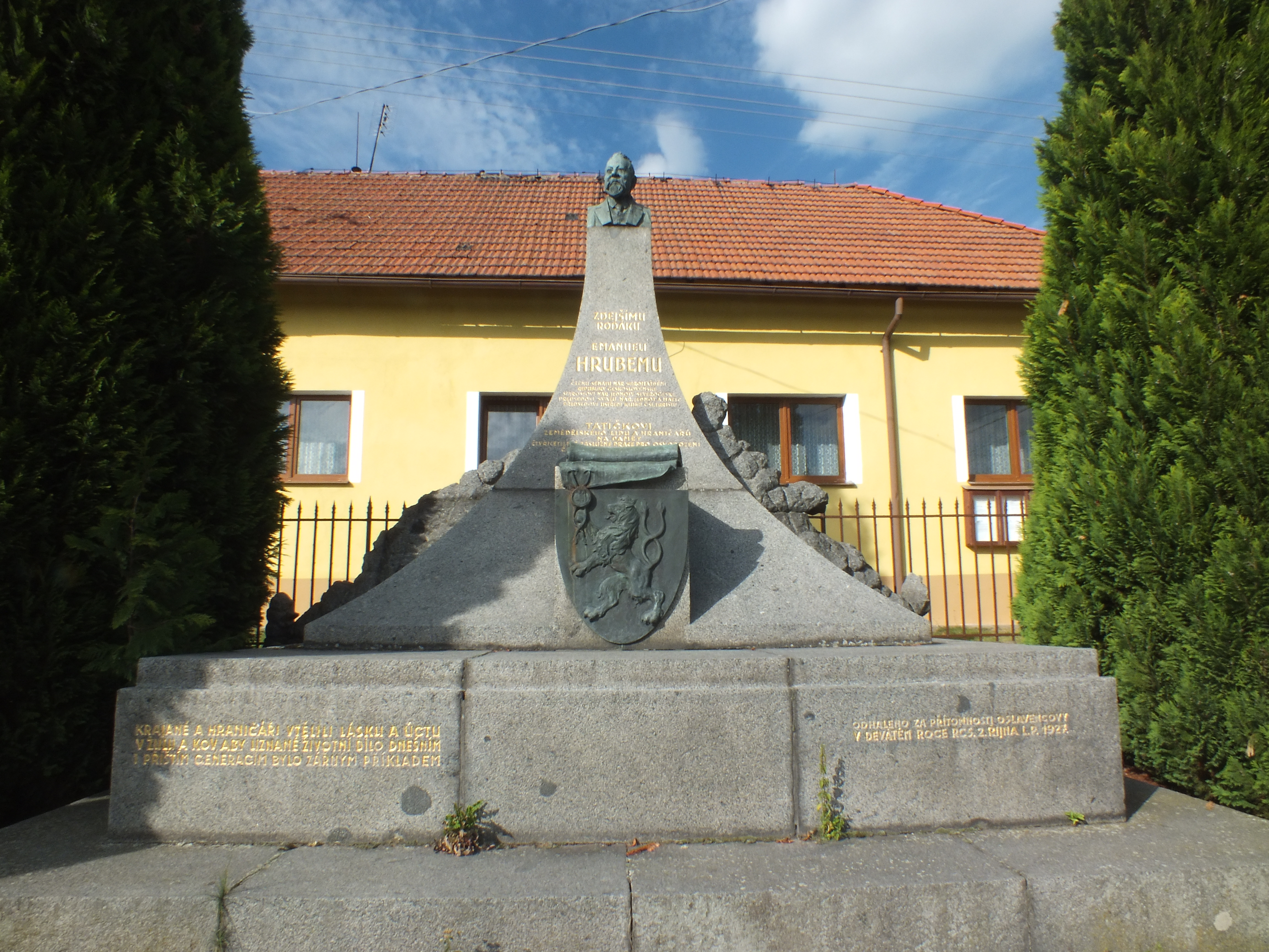 The memorial of Emanuel Hrubý in front of the municipal office in Občov